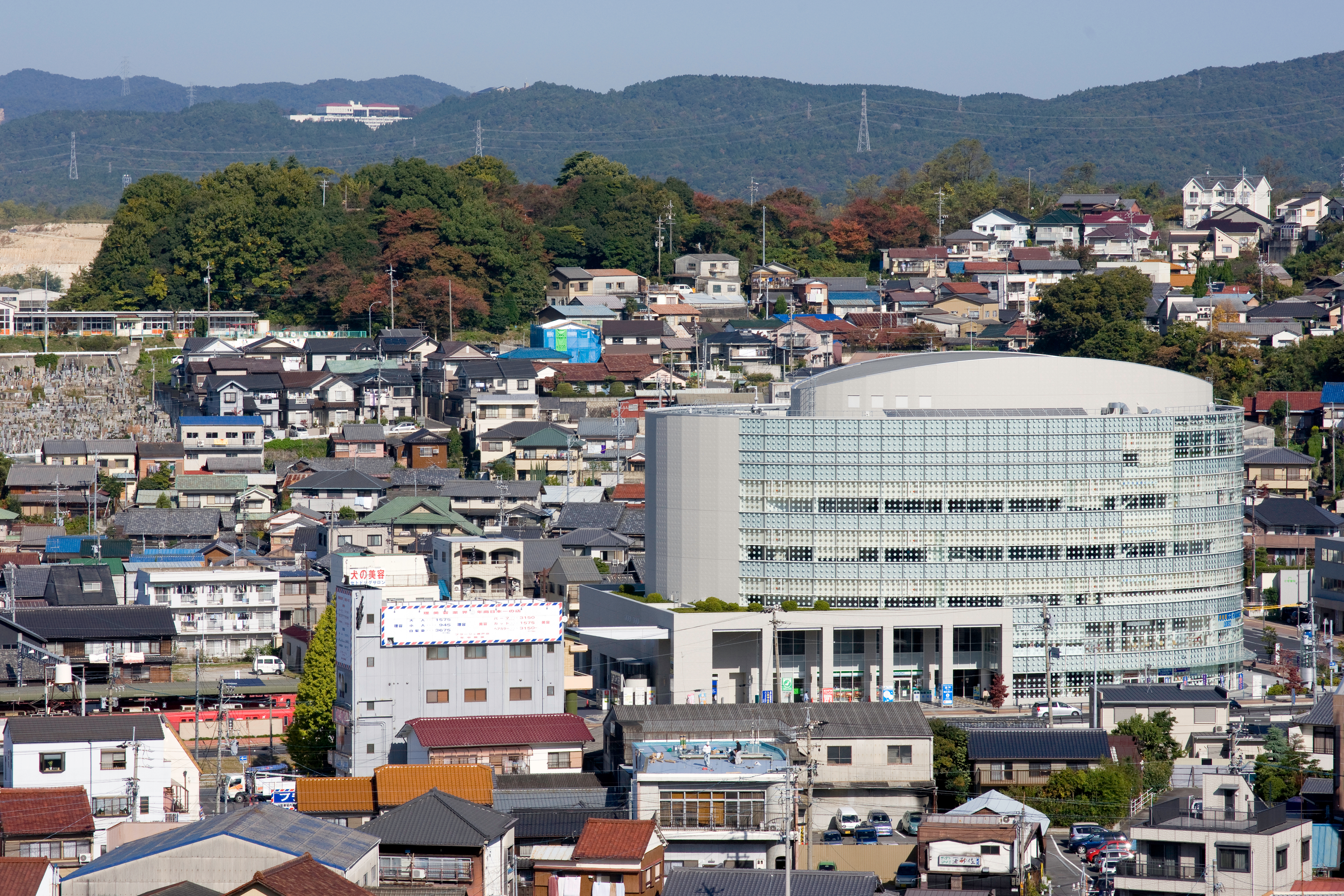 Seto City International Center and Owari-Seto Station (last stop on the Meitetsu Line)